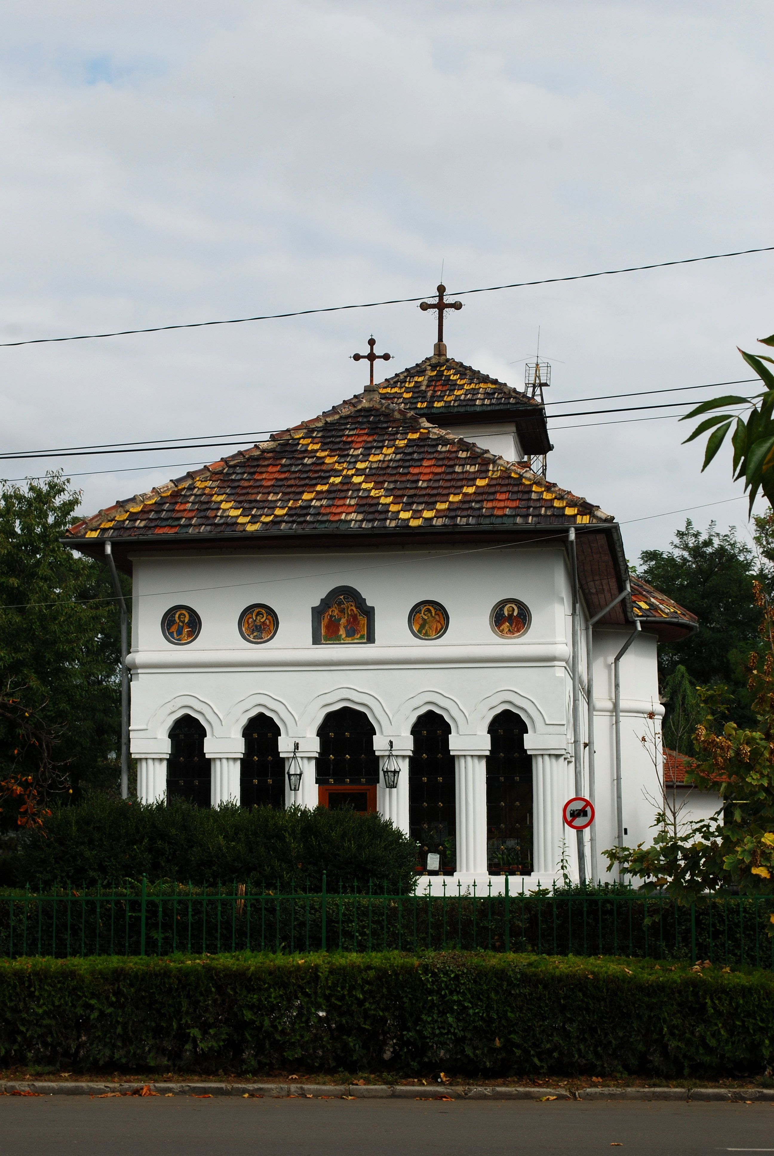 Banului church in Buzău, Romania